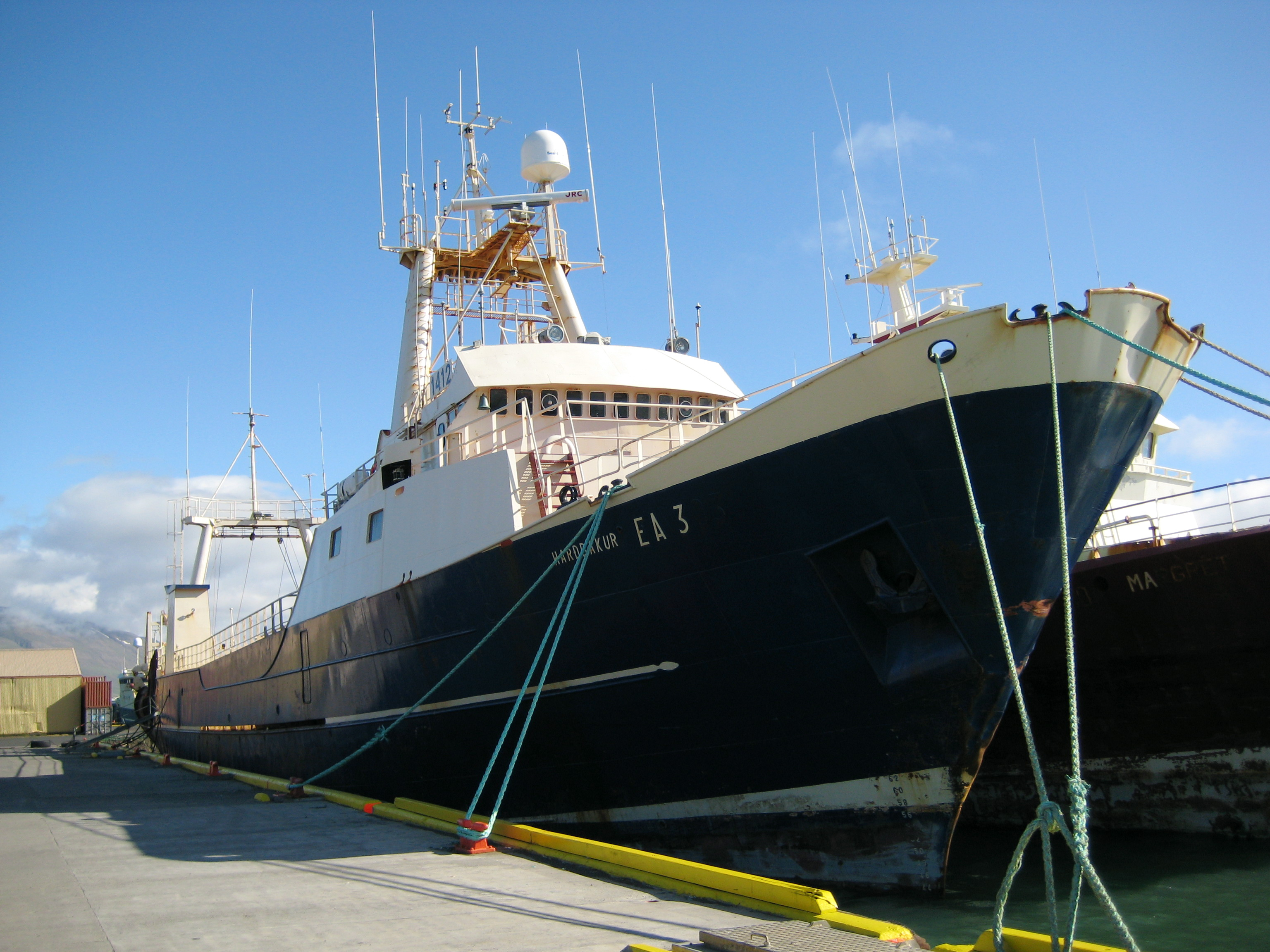 The trawler Harðbakur EA3 in the port of Akureyri.